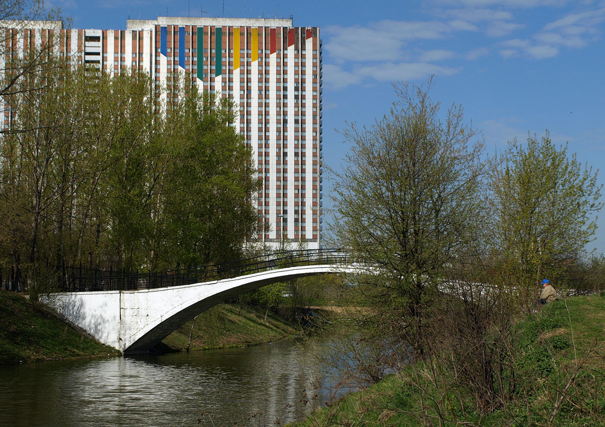 Tsar's Court in Izmailovo